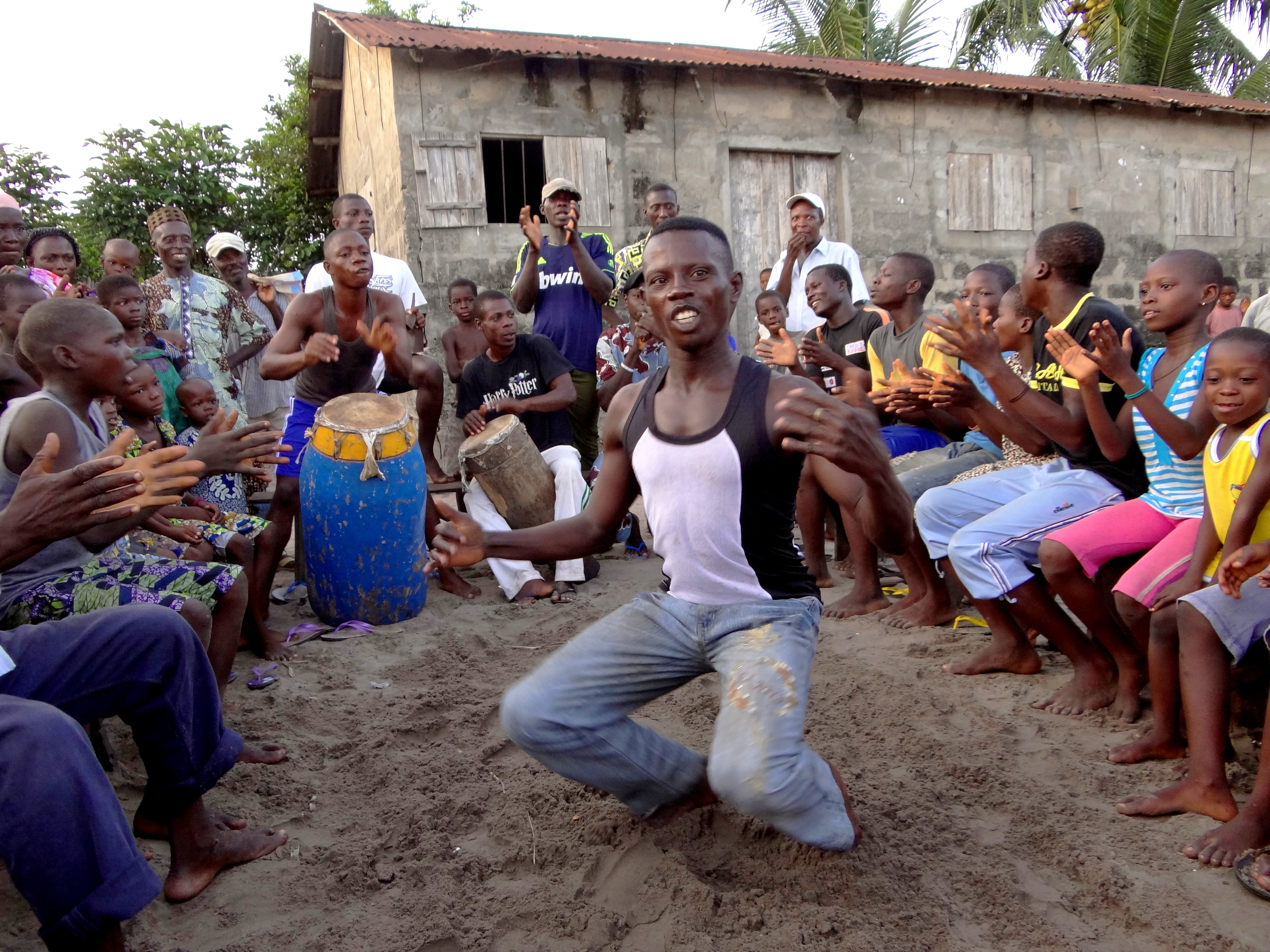 This is an image with the theme "Africa on the Move or Transport" from: Benin